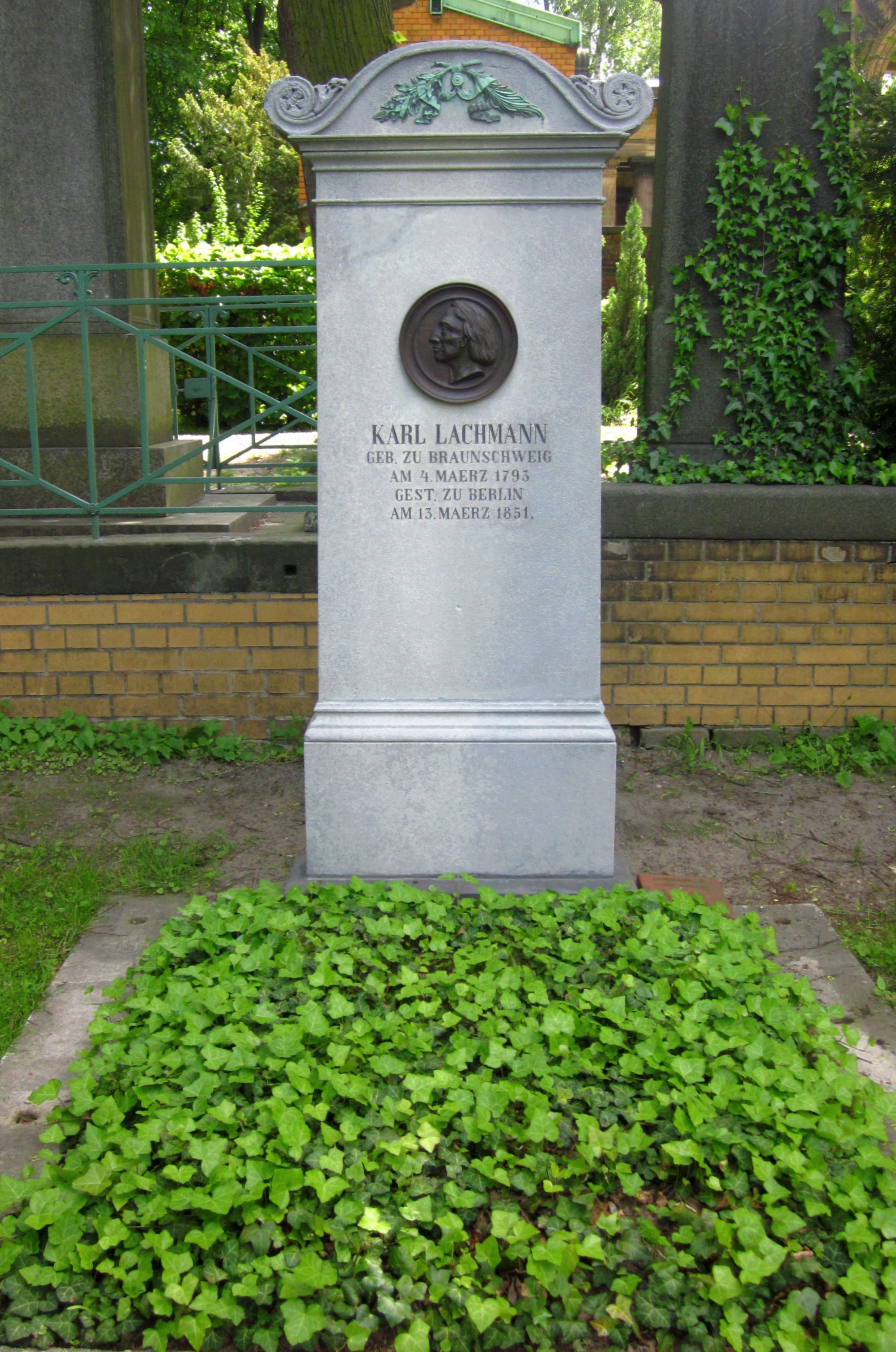 Grave of the philologist and medievalist Karl Lachmann (1793-1851) on the Dreifaltigkeitsfriedhof II cemetery at Bergmannstraße in Berlin-Kreuzberg. Grave of honor of the State of Berlin.